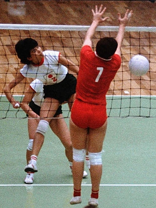 Emiko Miyamoto of Japan spikes the ball during the Women's Volleyball final between Japan and Soviet Union during Tokyo Olympic at Komazawa Gymnasium on October 23, 1964 in Tokyo, Japan.